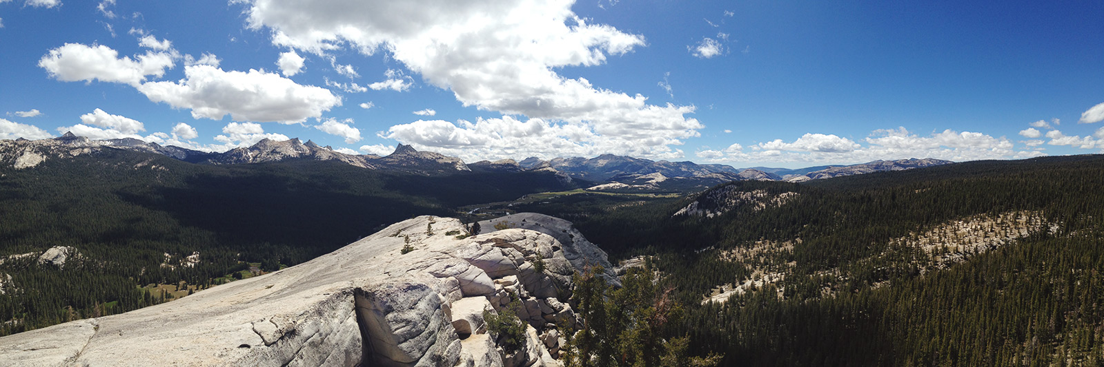 View from top of Lembert Dome, Tuolumne Meadows, Yosemite National Park, California. Unicorn peak and Cathedral peak in background.